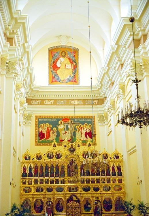 Greek Catholic Cathedral of St. John the Baptist in Przemysl, Poland